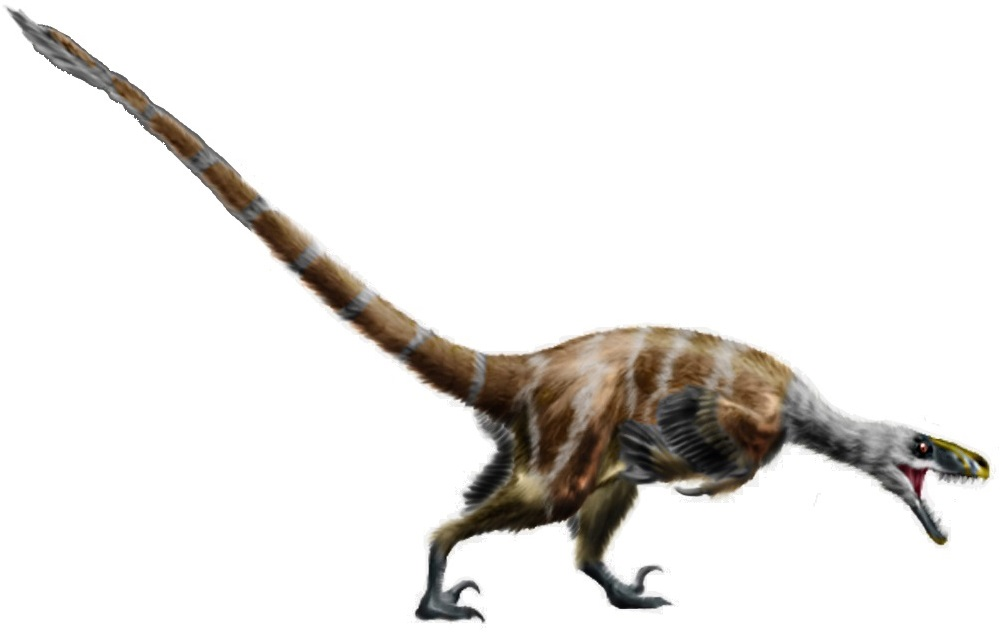 Dromaeosaurus